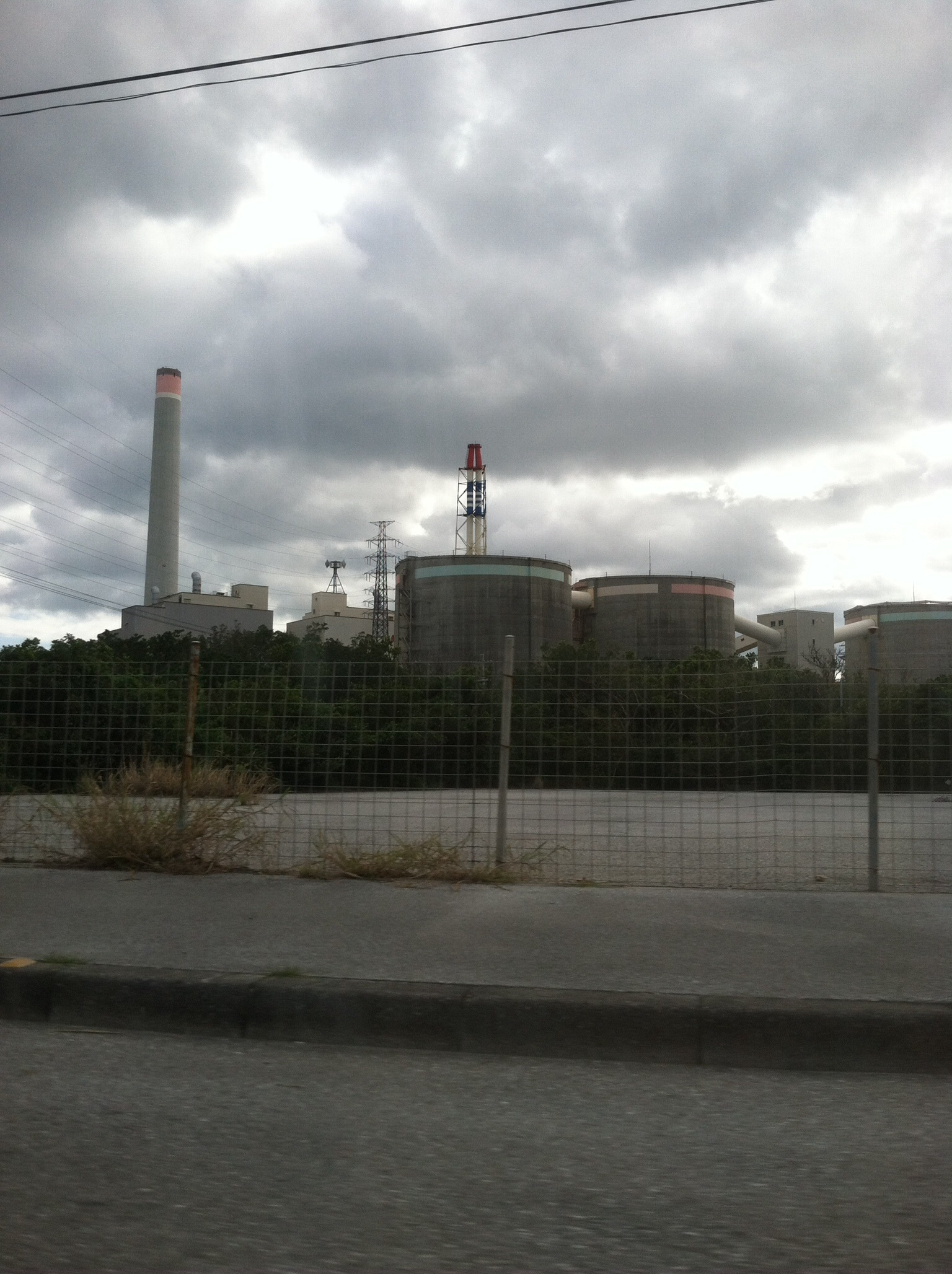 The coal powerplant near downtown Ishikawa.